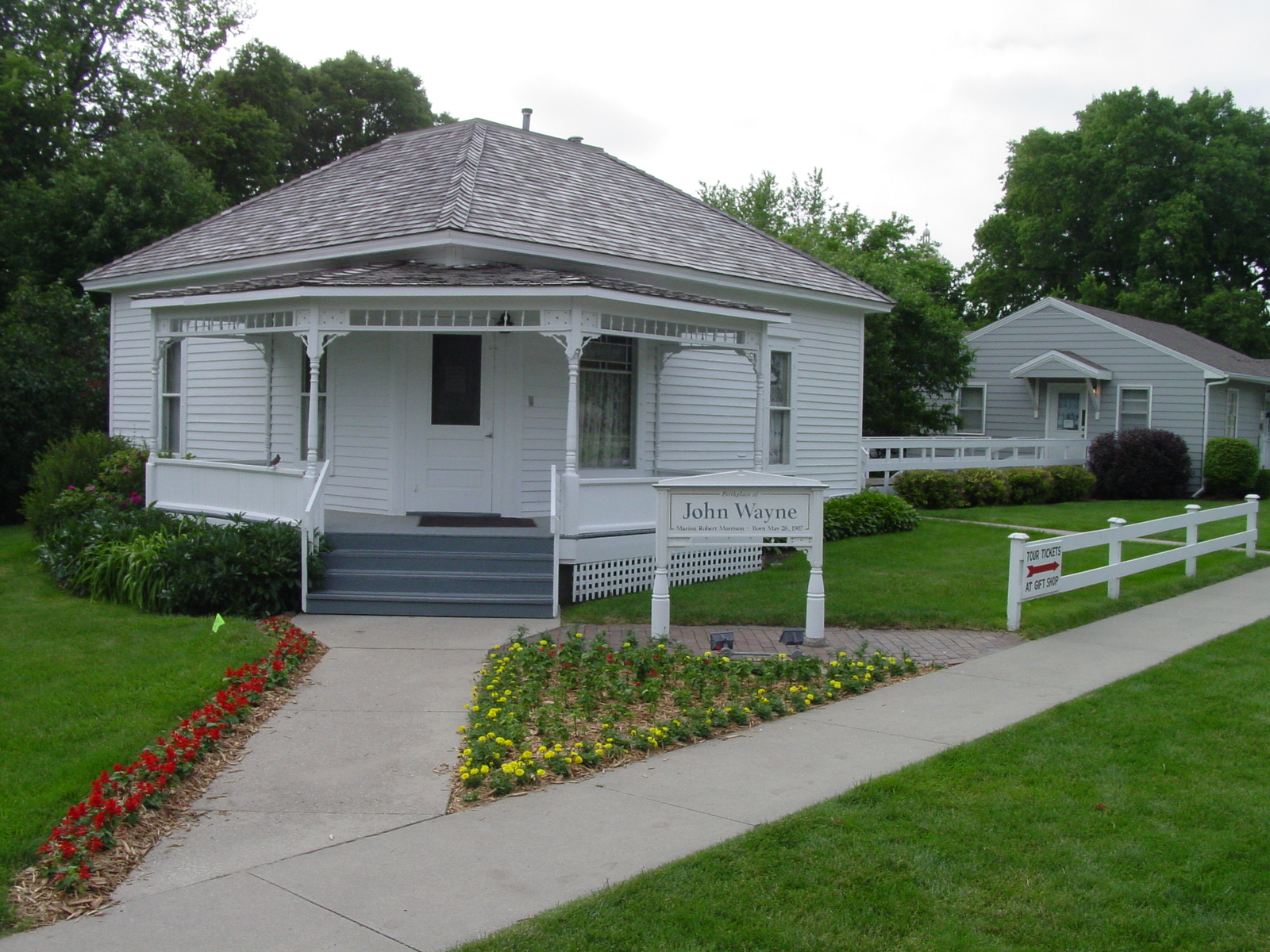 Birth home of John Wayne, Winterset, Iowa.